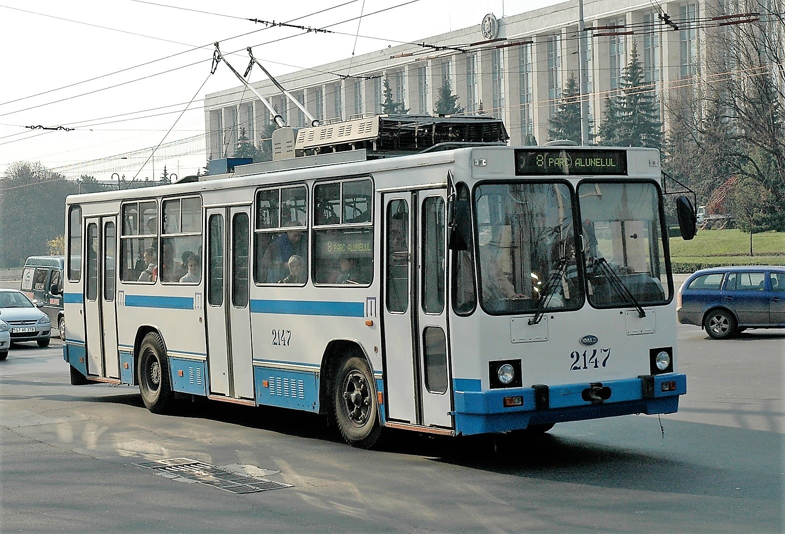 YuMZ T2 trolleybus in Chisinau (Moldova)